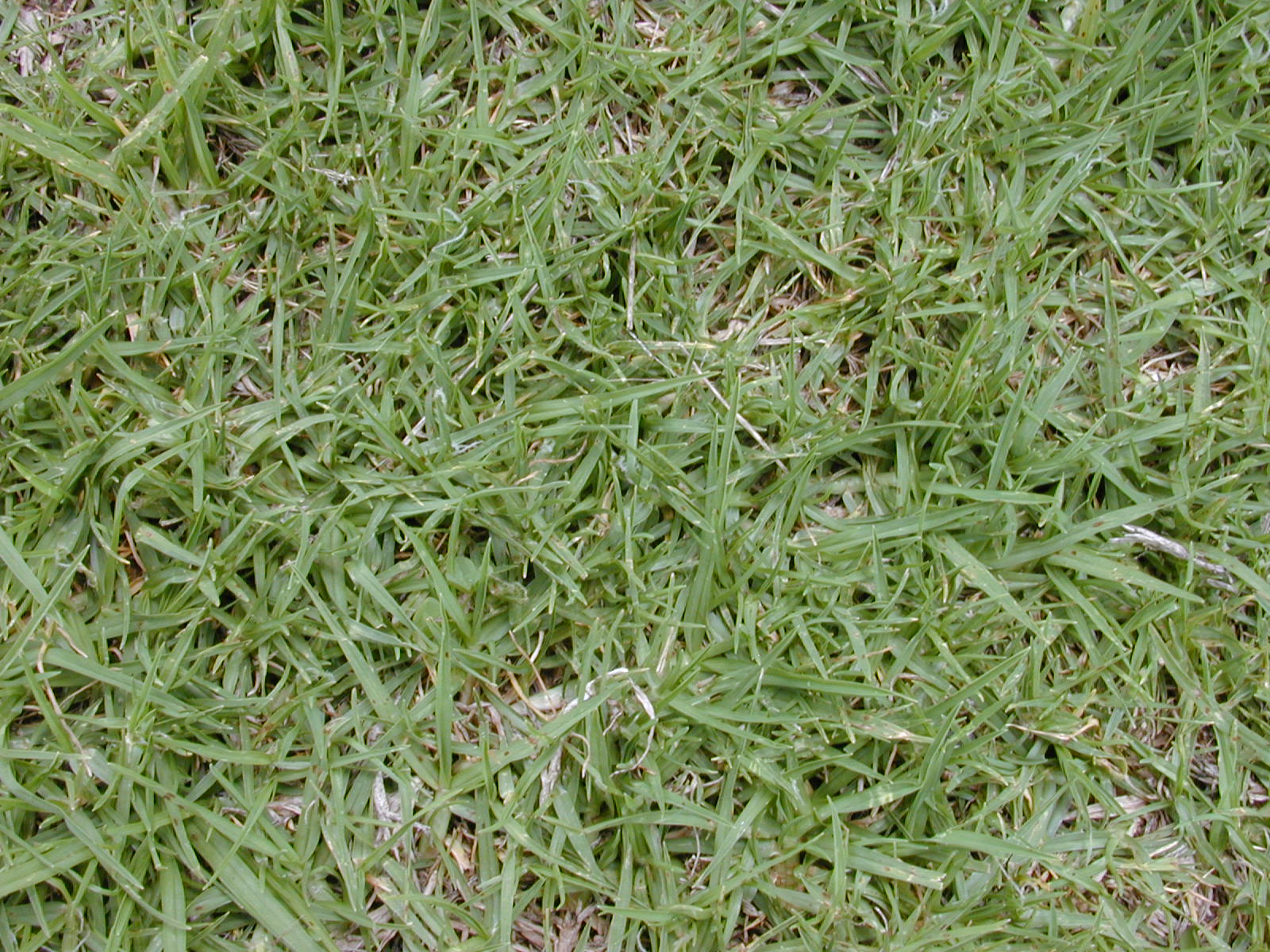 Pennisetum clandestinum (habit). Location: Maui, Kula